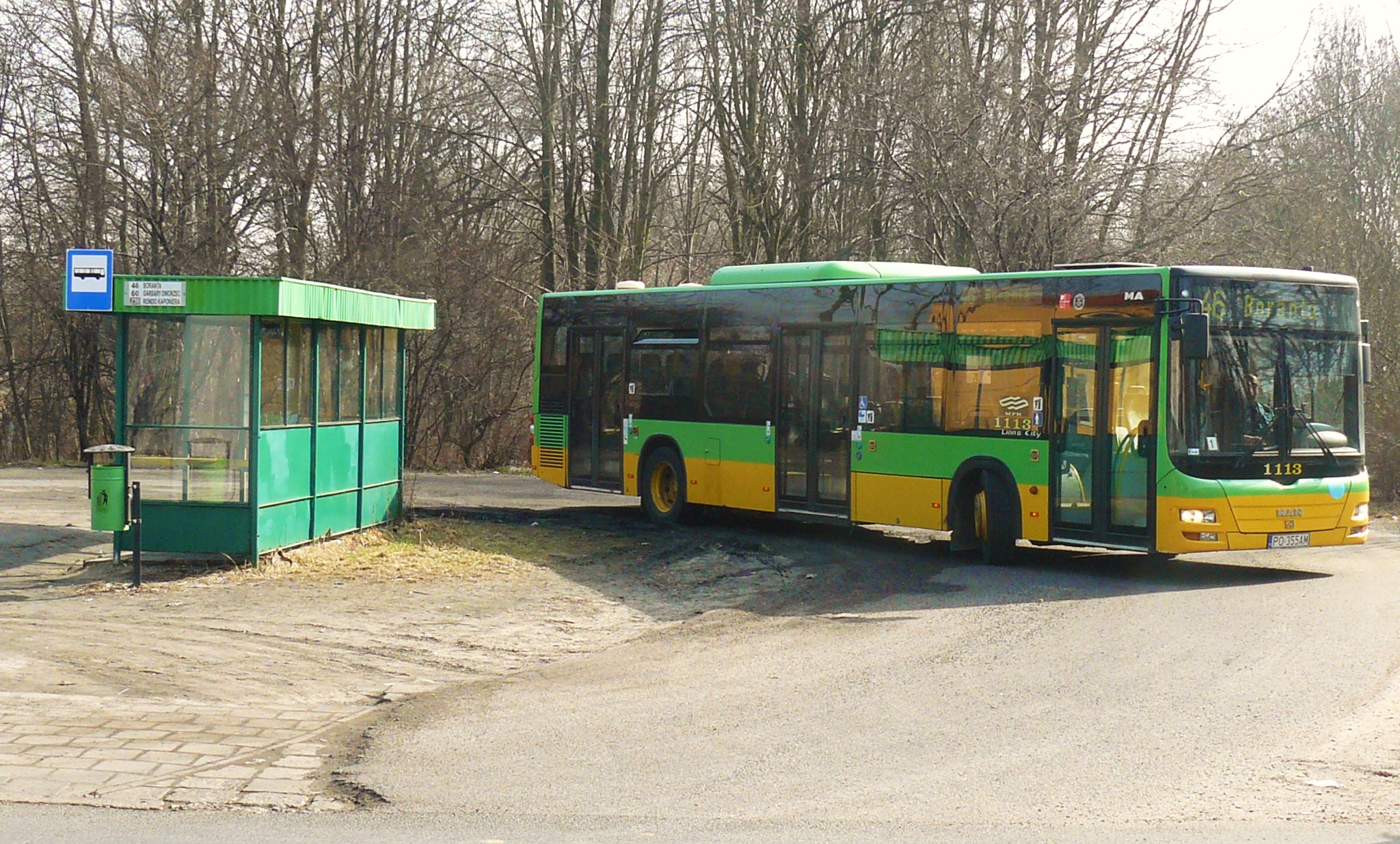 Poznań, Poland. Bus-End-Stop Strzeszyn. MAN NL263 Lion's City (#1113, reg. PO 355AM). Built 2006, MPK Poznań operator.